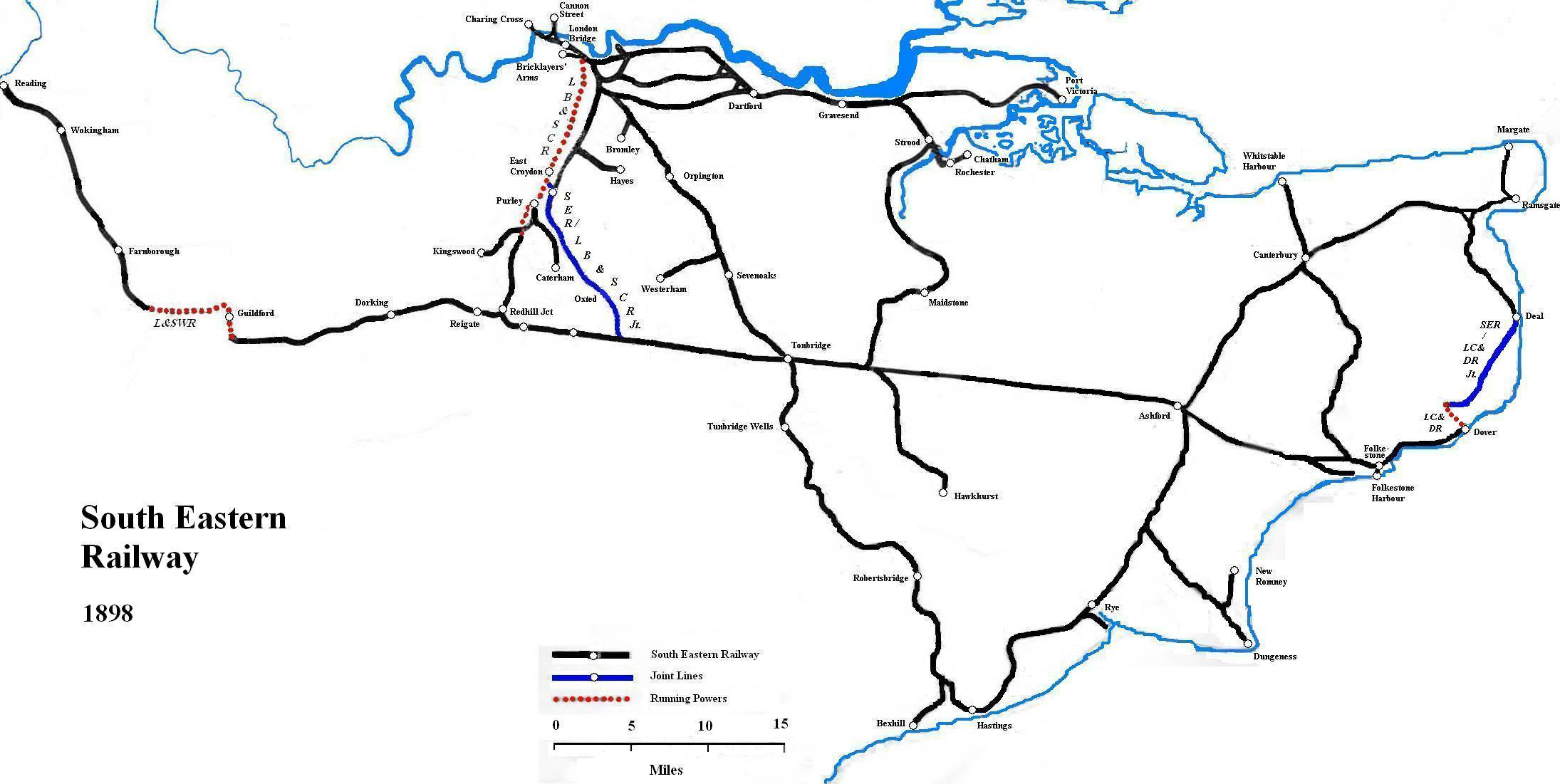 A sketch map of the South Eastern Railway (Great Britain), 1899